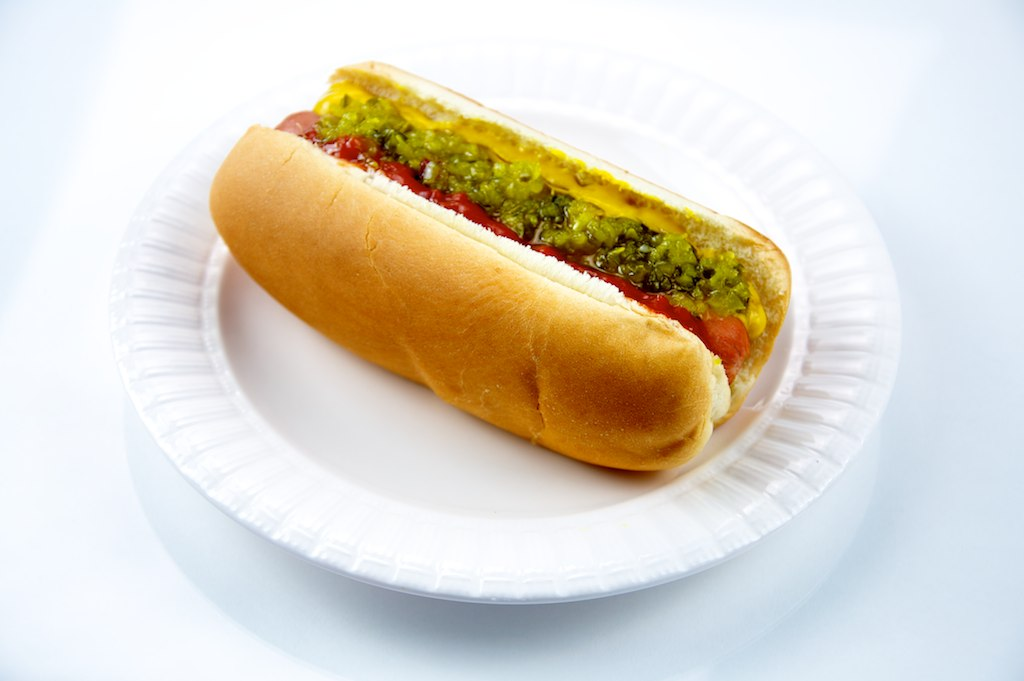 Hot Dog on a Plate